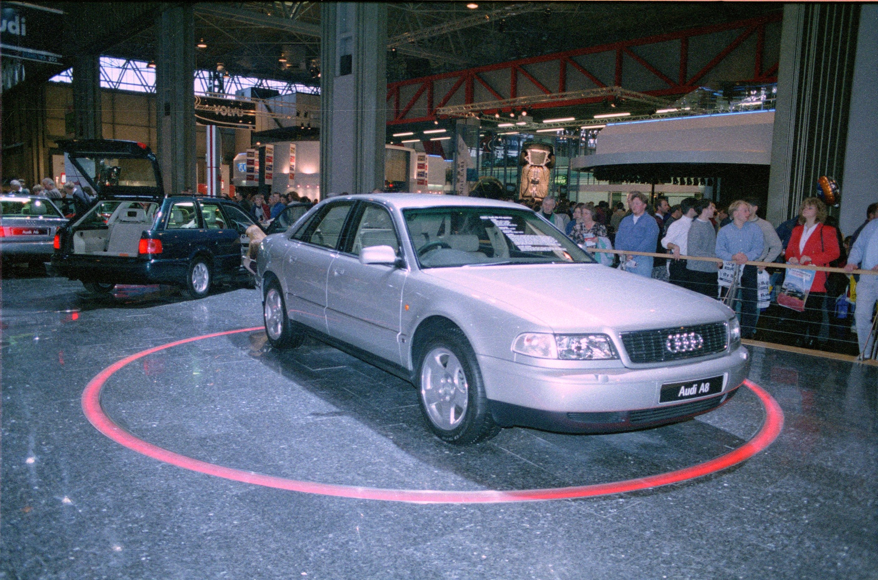 The then-new Audi A8